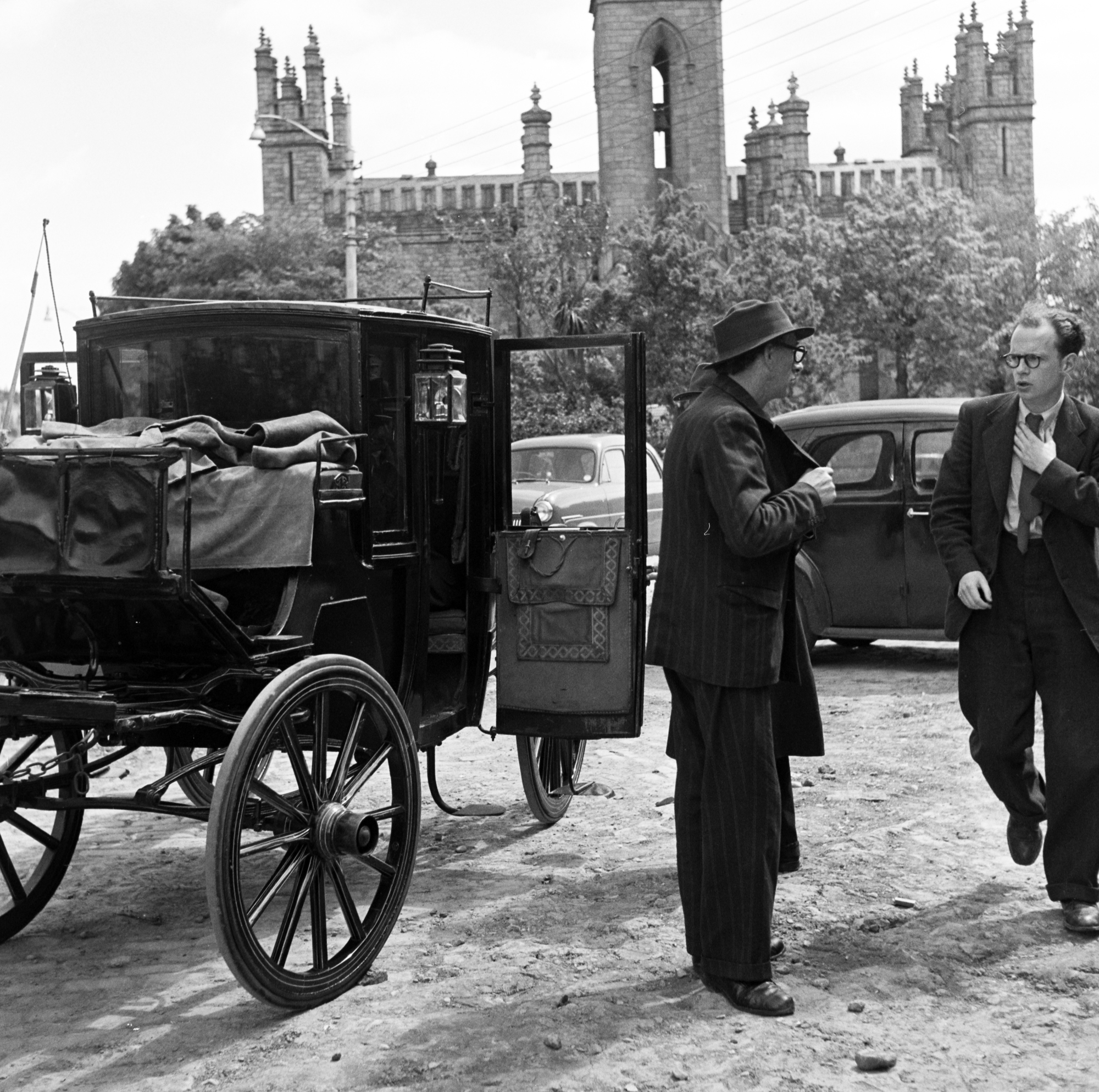 Poets Patrick Kavanagh and Anthony Cronin at the church in Monkstown with the carriage in which they'd been proceeding about Dublin in the footsteps of Leopold Bloom, the main protagonist in Ulysses - 50 years after Bloom traversed the city in James Joyce's novel. Date: Wednesday, 16 June 1954 NLI Ref.: WIL pk12[3]